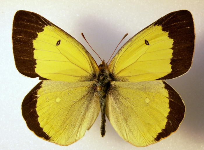 A Colias palaeno butterfly.